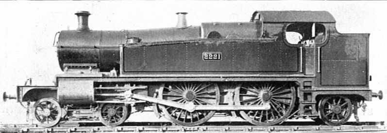 Fig. 2 Two Recent Designs of Tank Engines for Fast Train Working Great Western Railway "County" tank. Nº 2221